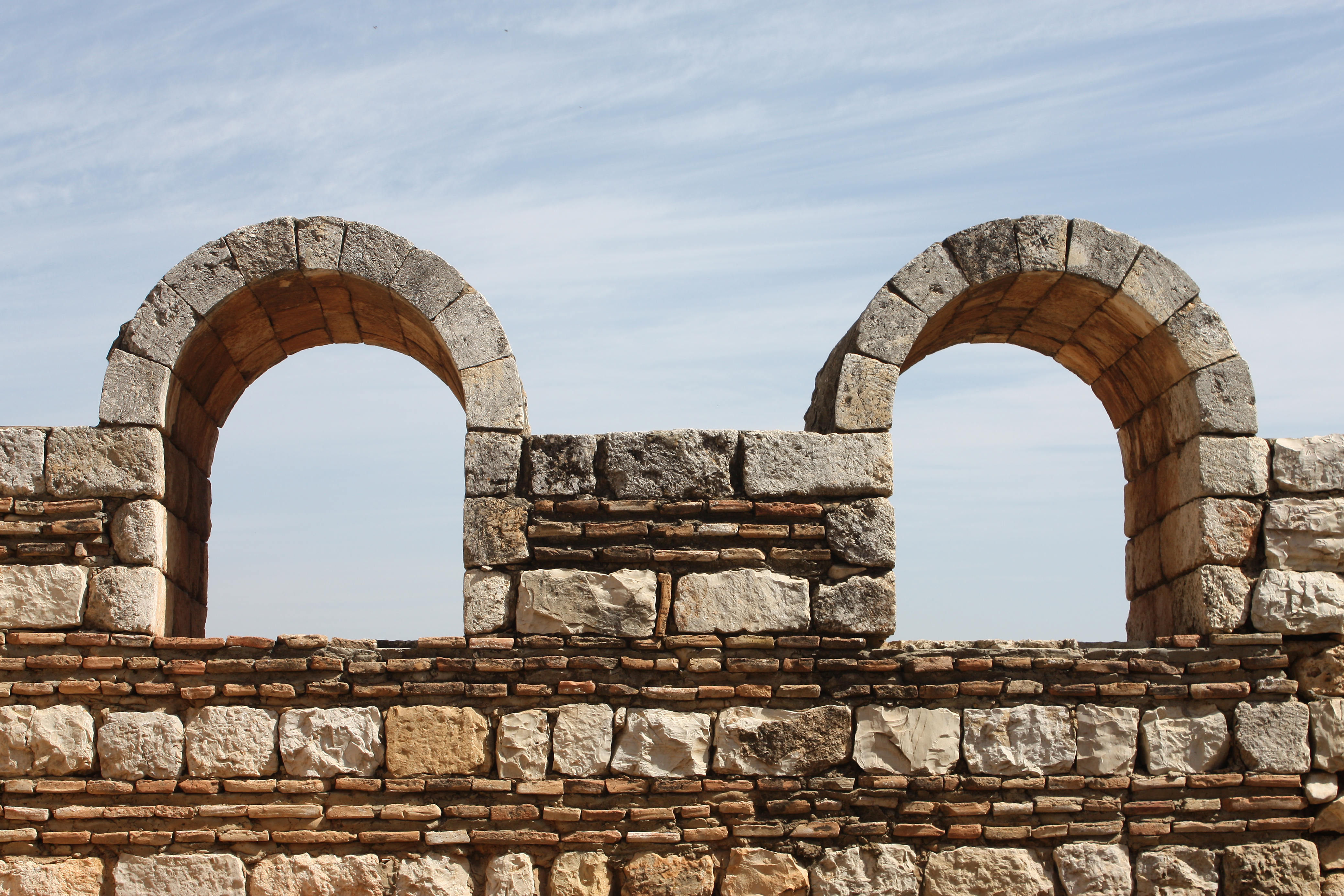 Stone windows in the Great Palace of Anjar.